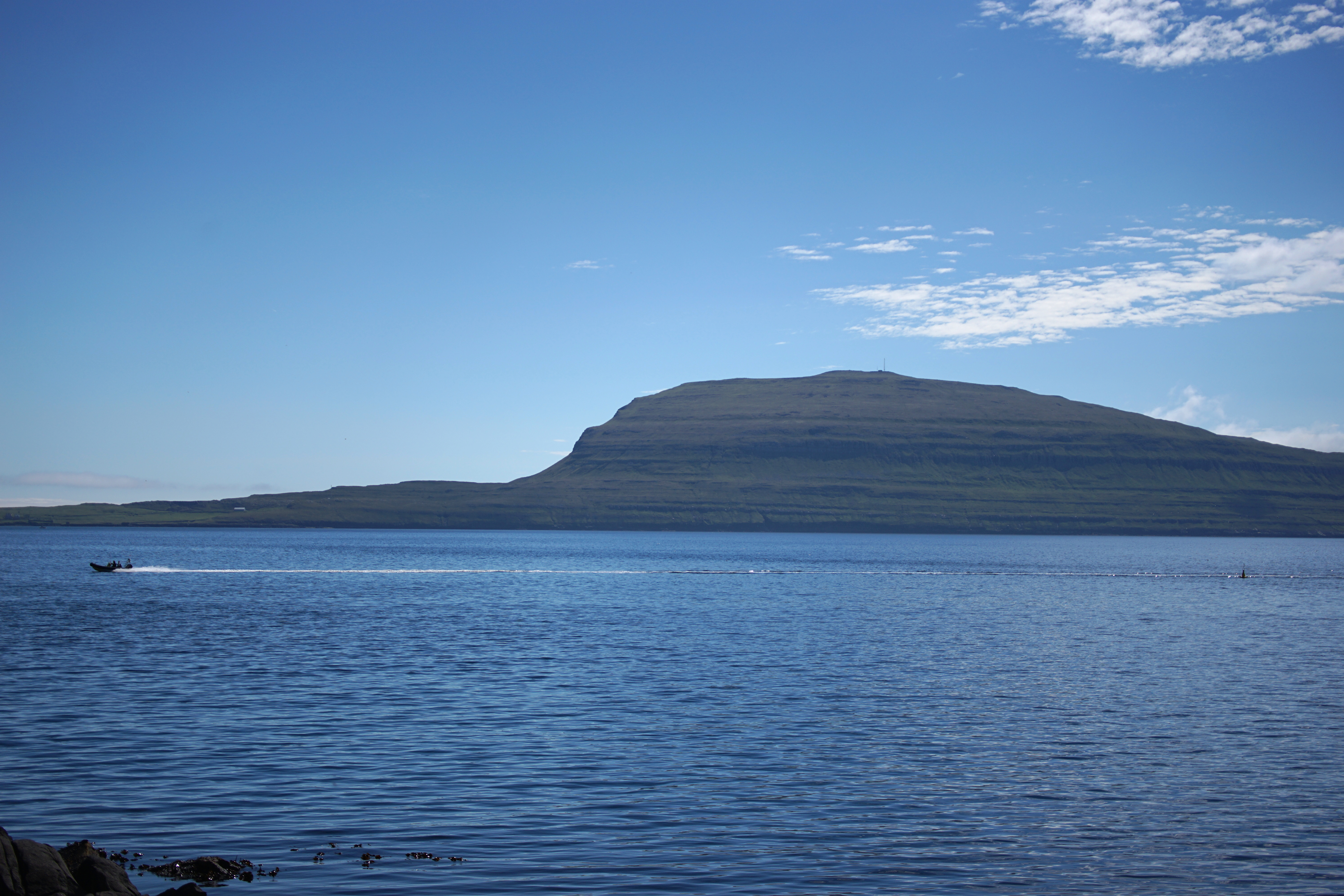 Nolsoy, Eggjarklettur hill.